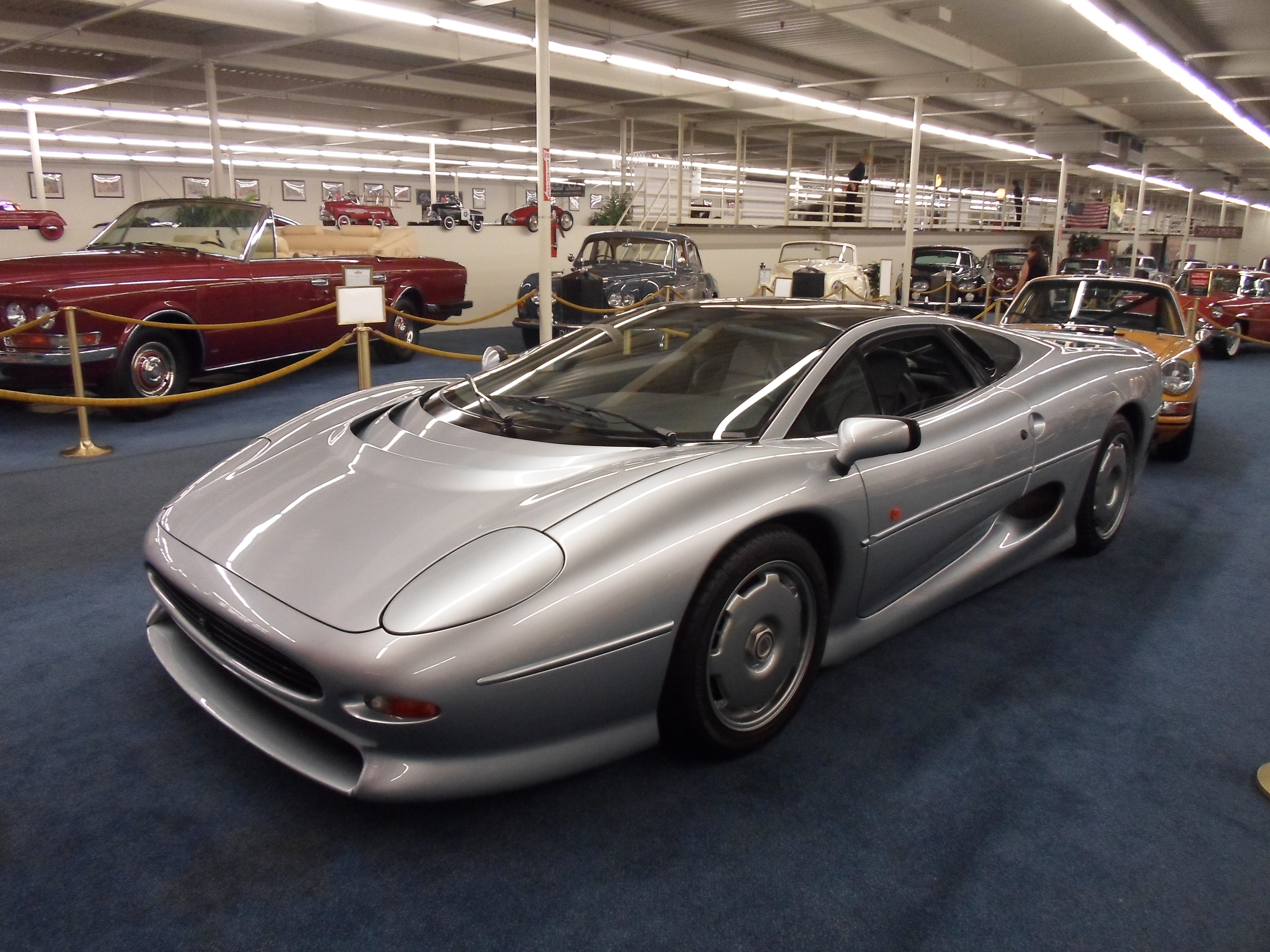 Only 735 miles on this 1994 Jaguar XJ220.